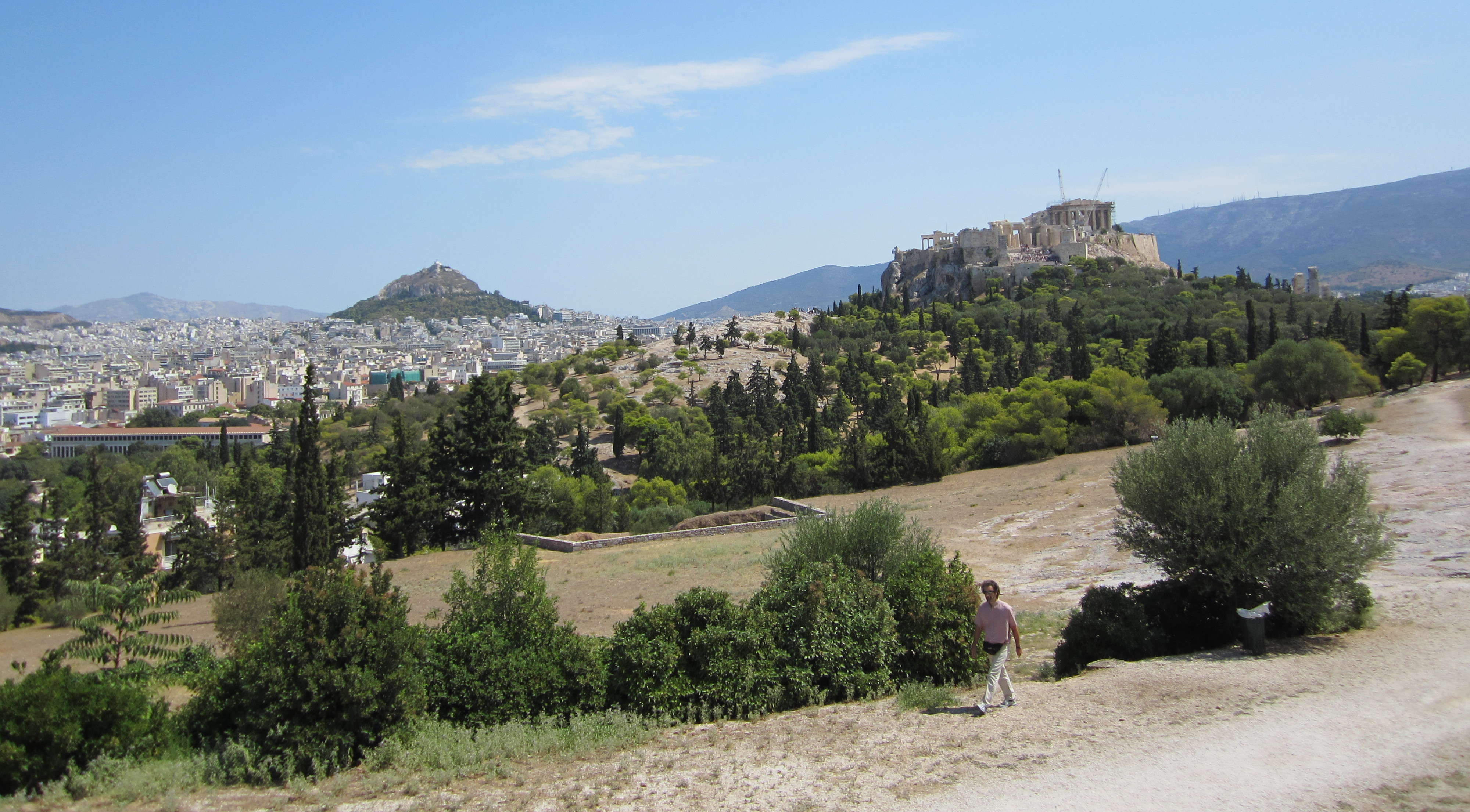 Pnyx, Athens, Greece.